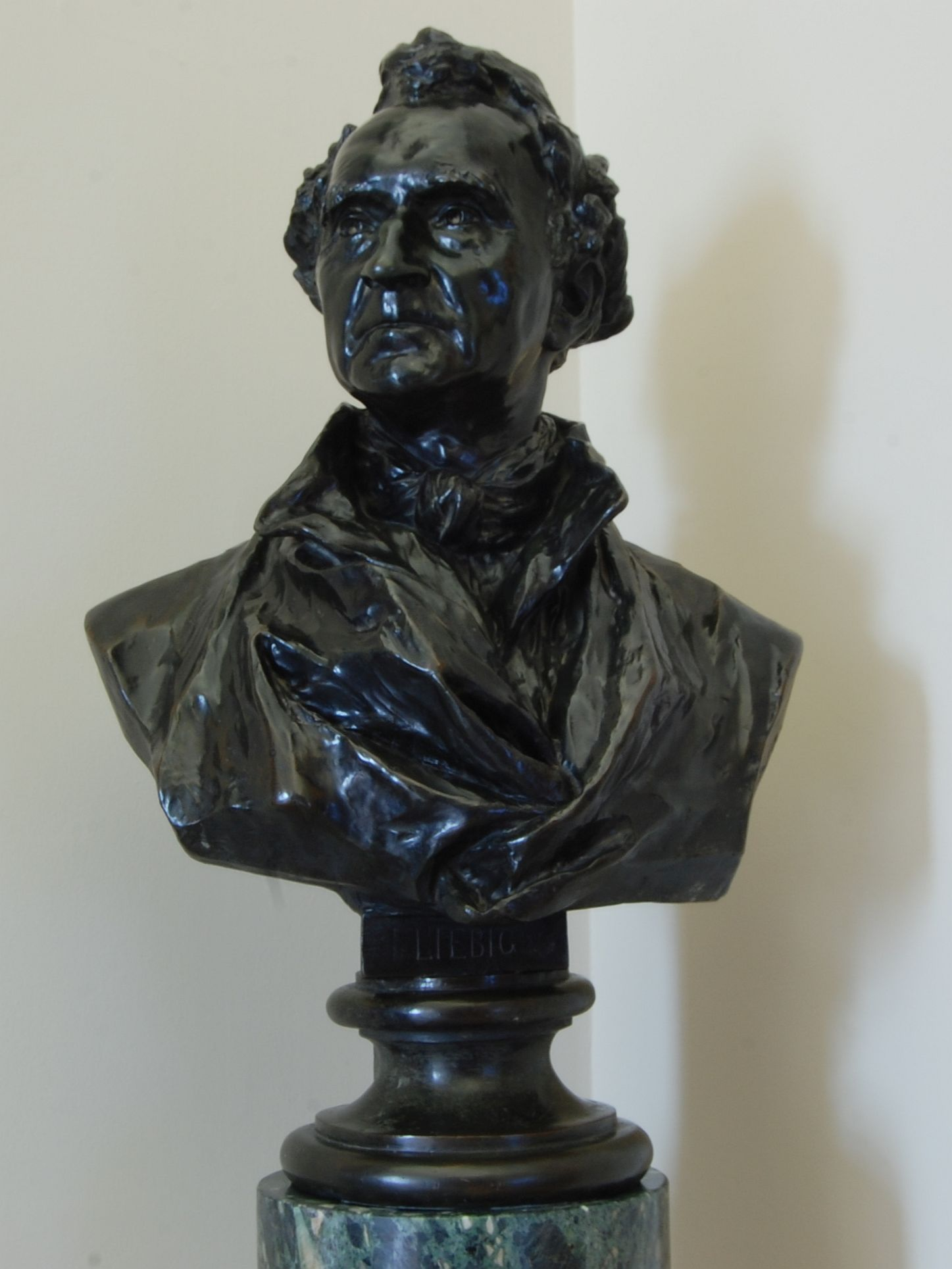 Bust of Justus von Liebig, by Michael Wagmüller, in the collection of the Royal Society of Chemistry, at it's Burlington House, London, headquarters.